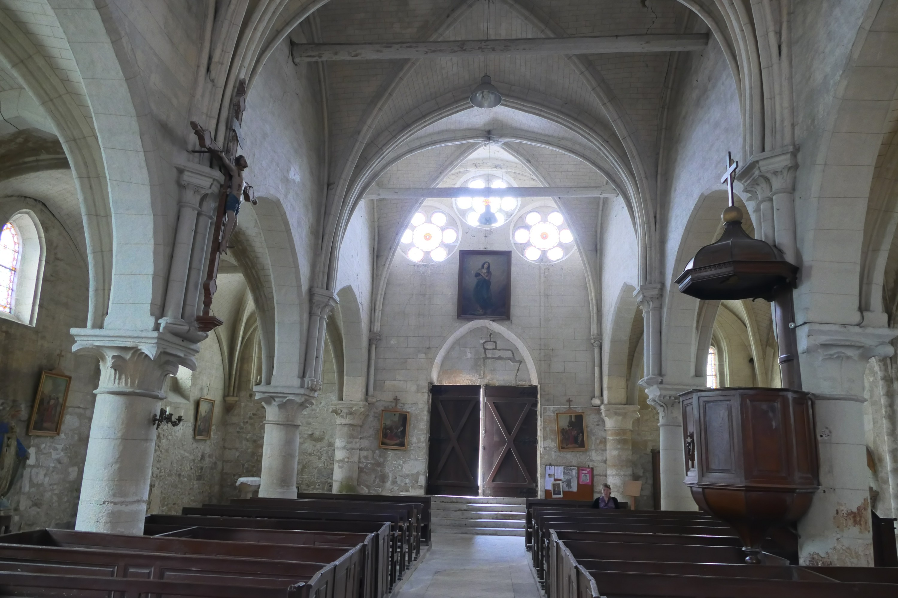 Saint-Denis' church in Ver-sur-Launette (Oise, Picardie, France).